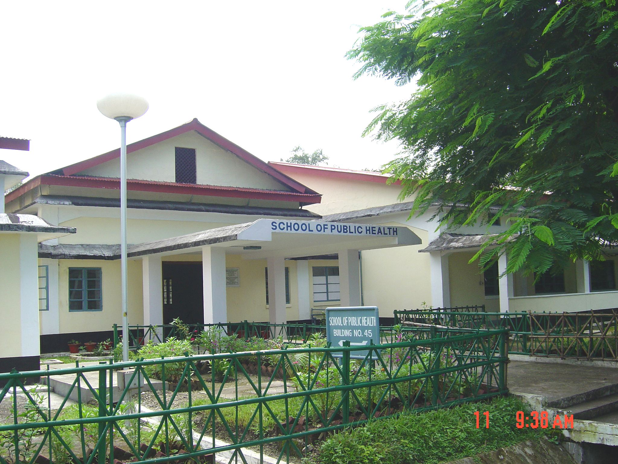 स्कूल अफ पब्लिक हेल्थ, वी.पी. कोइराला स्वास्थ्य विज्ञान प्रतिष्ठान